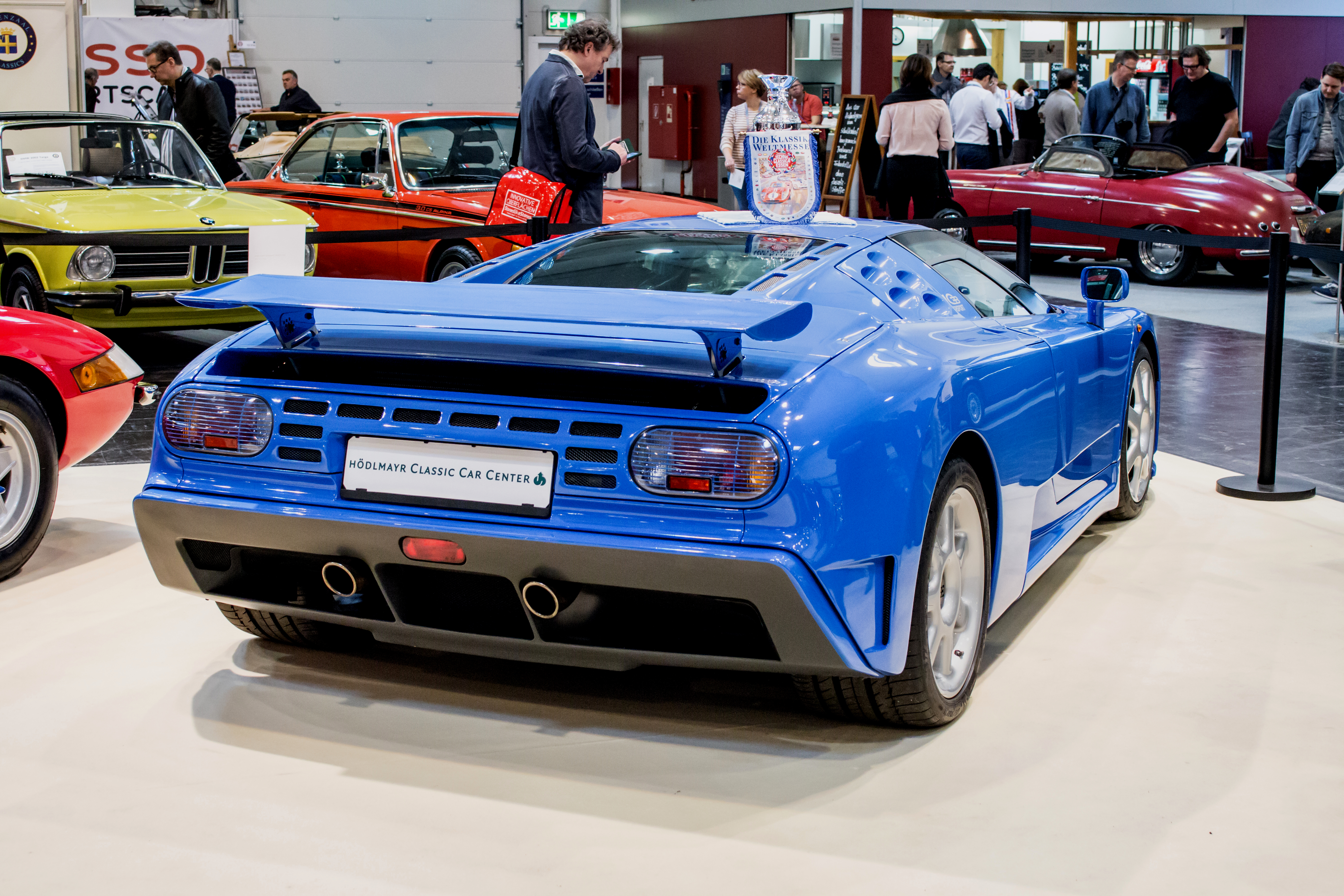 Techno Classica 2018, Essen